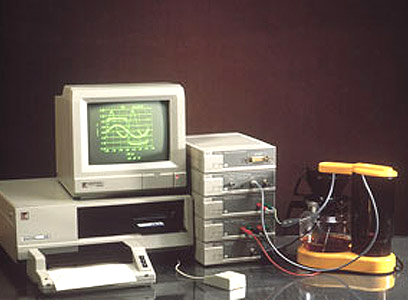 VIRT data acquisition system